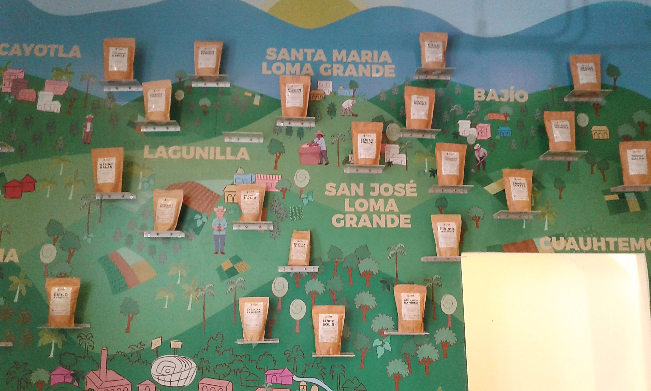 coffee exhibition in the coffee museum of Cordoba Veracruz